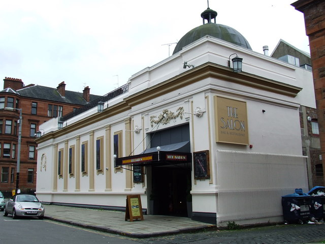 Former Salon Cinema On Vinicombe Street, now a bar and restaurant.